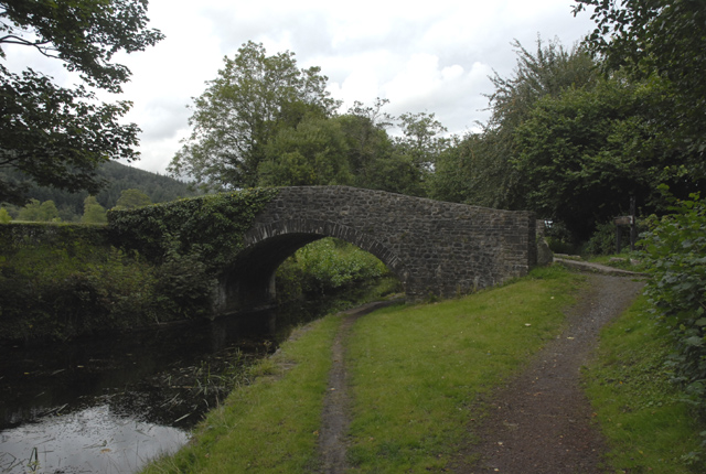 Bridge over Neath Canal near Rheola.